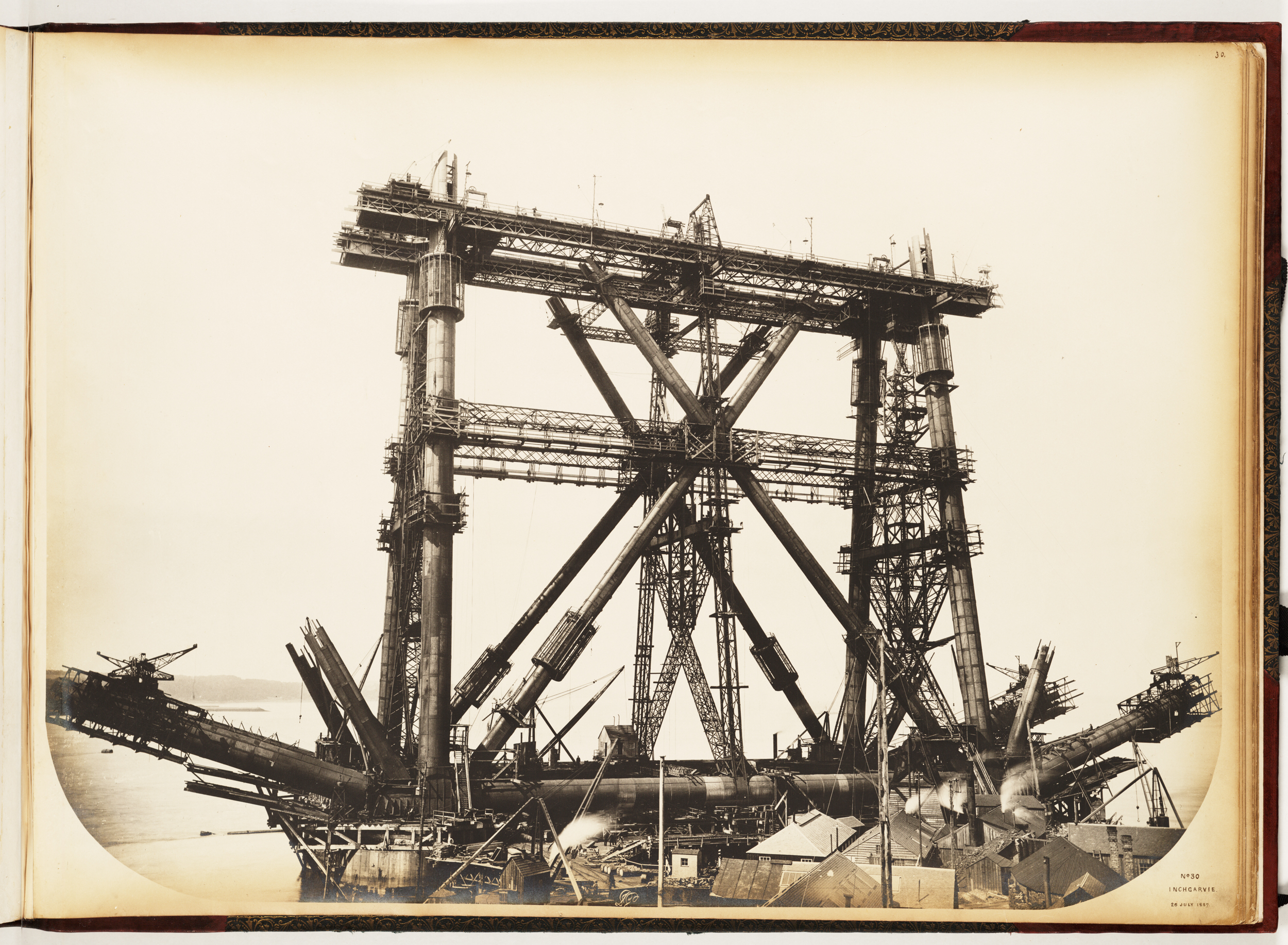 Photograph of the Inchgarvie cantilever, three-fourths full height. Here is Inchgarvie cantilever at about three-fourths of its full height, taken from the windgauge situated on the upper part of the old Castle. Three months have elapsed since the last picture of the superstructure of this point was secured, much progress is here visible. A large portion of the temporary work in the lower parts having been removed, the joints formed by vertical ties and lower member may be seen to advantage. The completion of horizontal girders work above rail level shows progress that has been made, though at present there are no signs of the internal viaduct. The bottom members projecting over the water are here represented as far out as they were carried without external support, as are also the cages used for purpose of riveting. The lower half of struts between columns are now supporting each other, the temporary girders previously represented holding them apart having been removed, but only to play another role in connection with these same struts at a higher level, for whereas they were originally in compression they are now in tension. This is another of the views by which the enormous proportions of the structure may be readily realised, for notwithstanding that the picture covers the whole of the paper it is some minutes before a single man can be found, though a little patience will prove the presence of many dozens. Transcription from: Philip Phillips, 'The Forth Railway Bridge', Edinburgh, 1890.